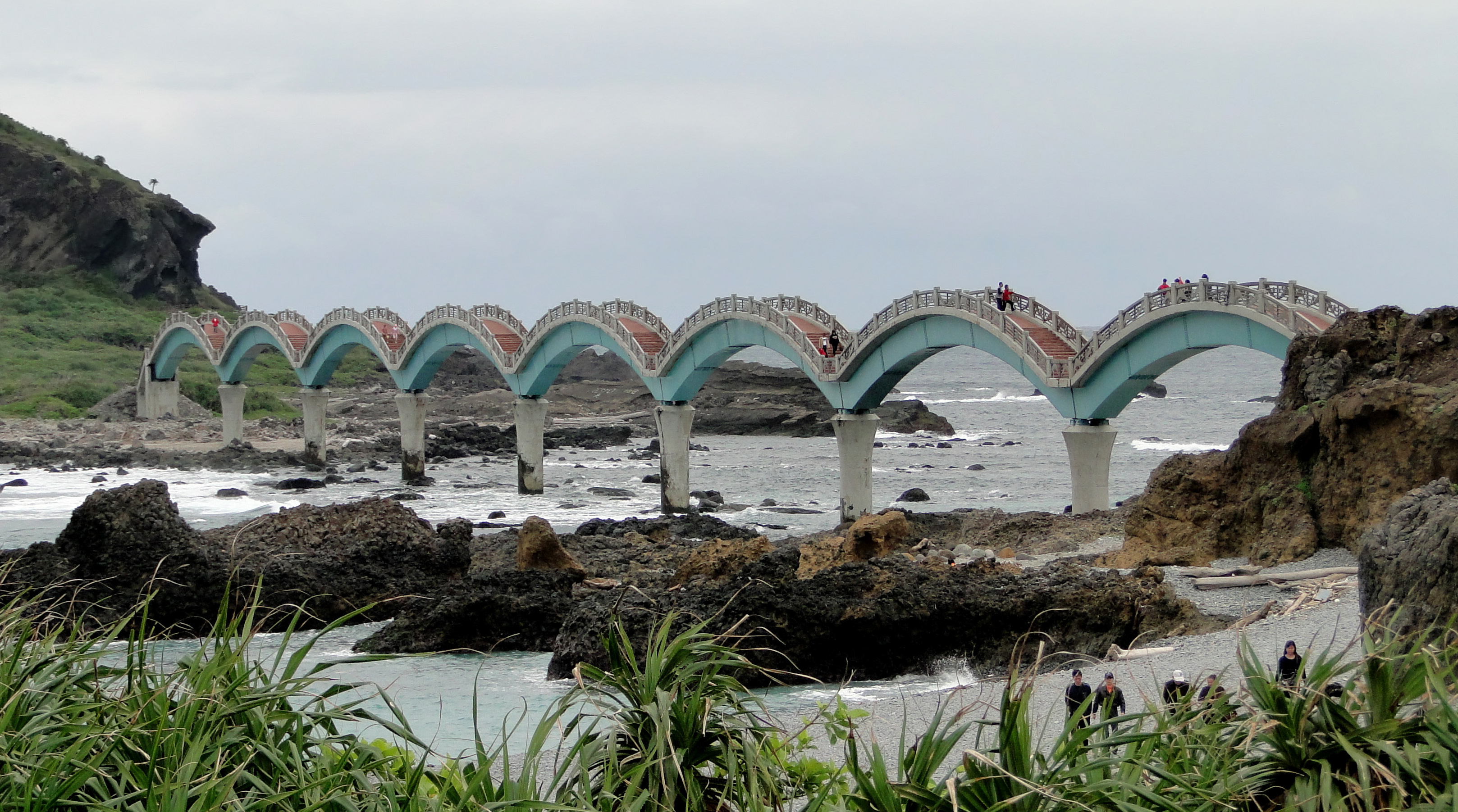 Sansiantai Bridge (1987), Taitung County, Taiwan